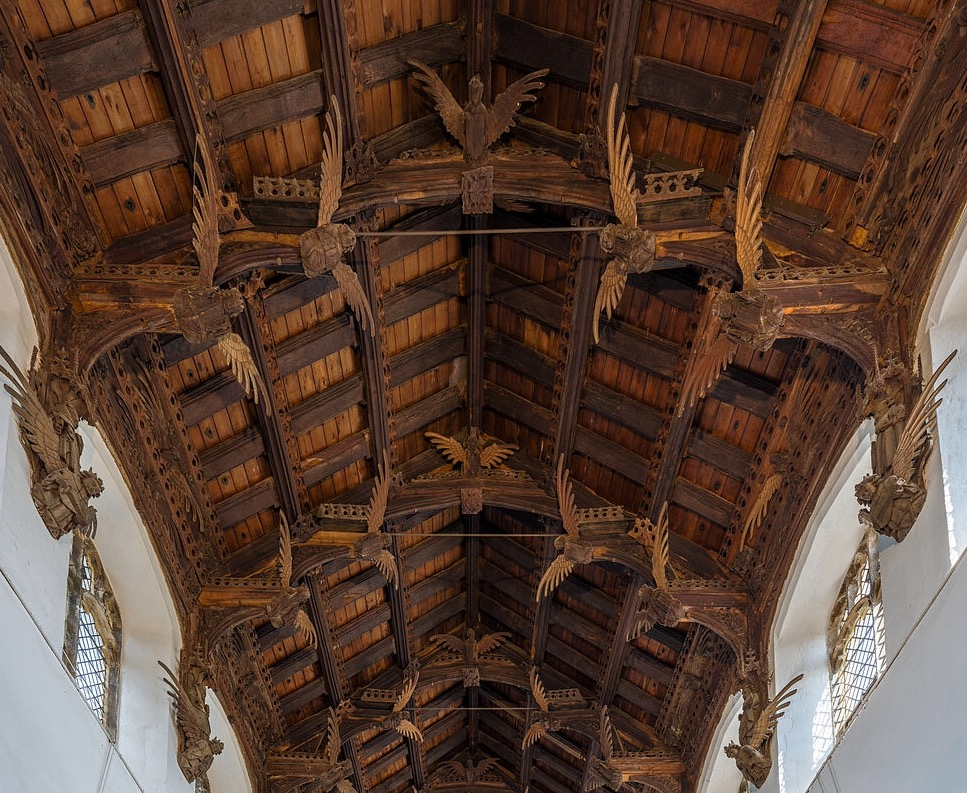 Hammerbeam roof of St Wendreda's Church, March, Cambridgeshire, decorated with 118 angels carved in oak